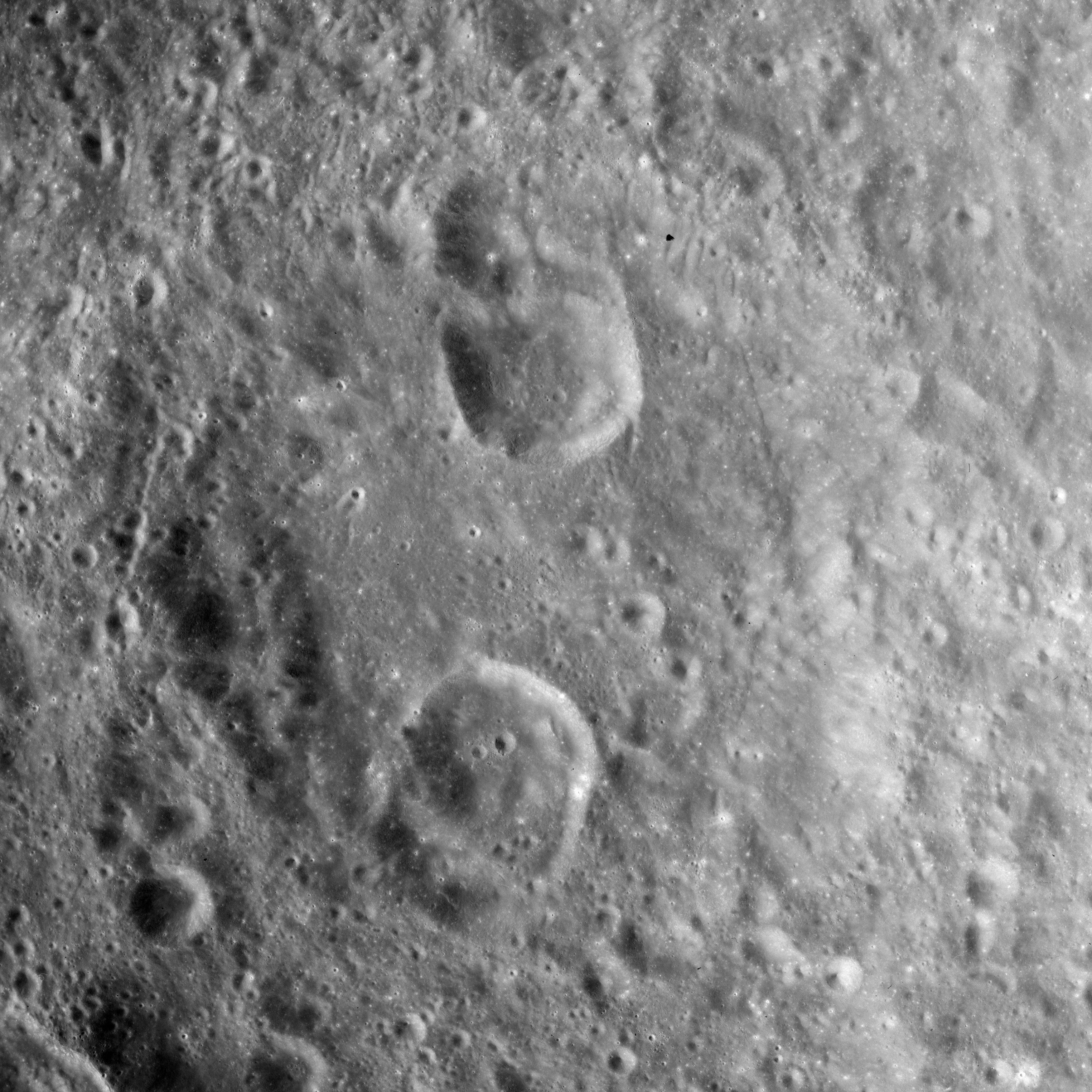 Kondratyuk, on the far side of the moon. North at top. Altitude 119 km, sun angle 40 deg.